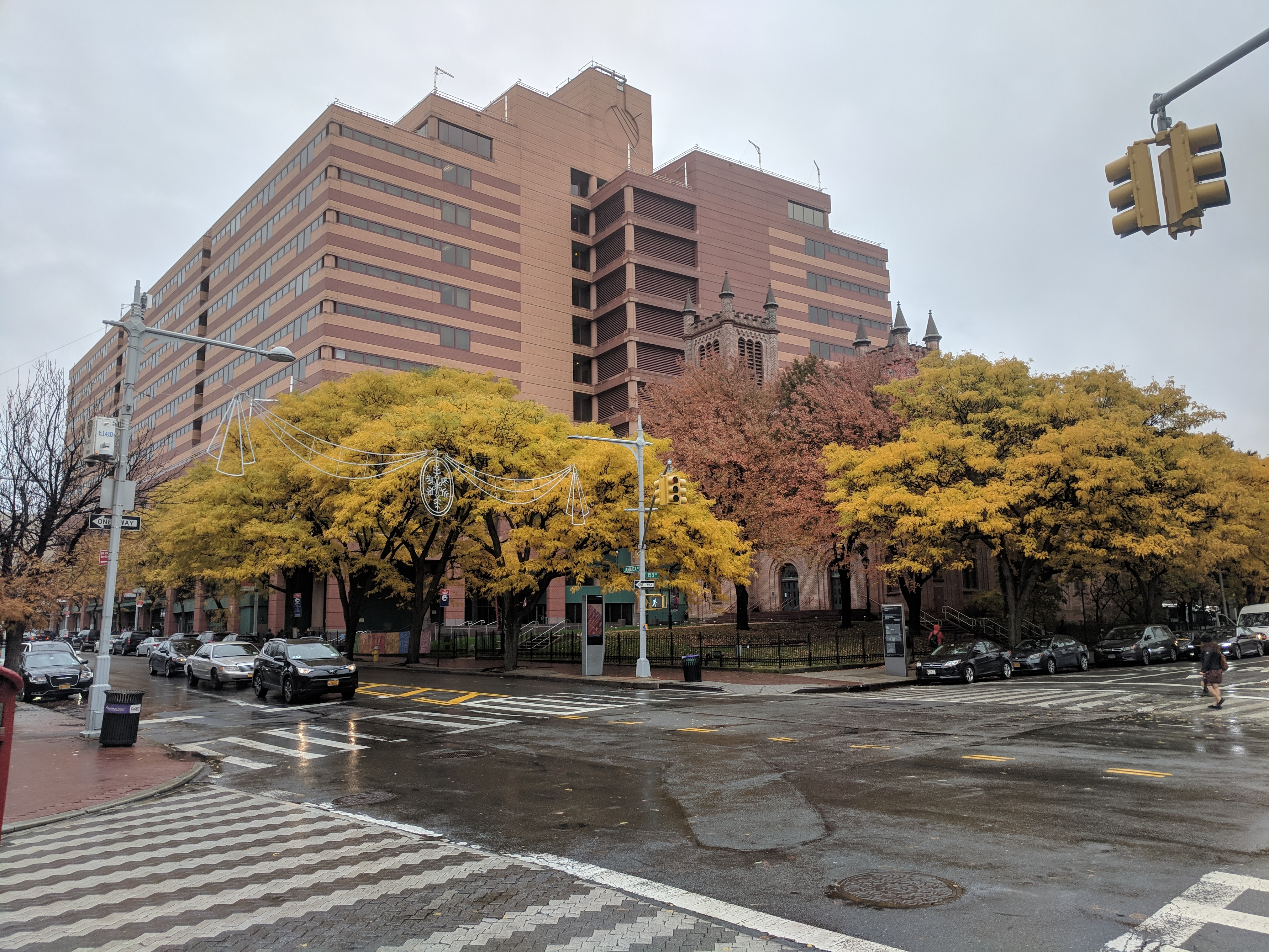 153rd st & Jamaica Ave looking east to Joseph Addabo Social Security Bldg